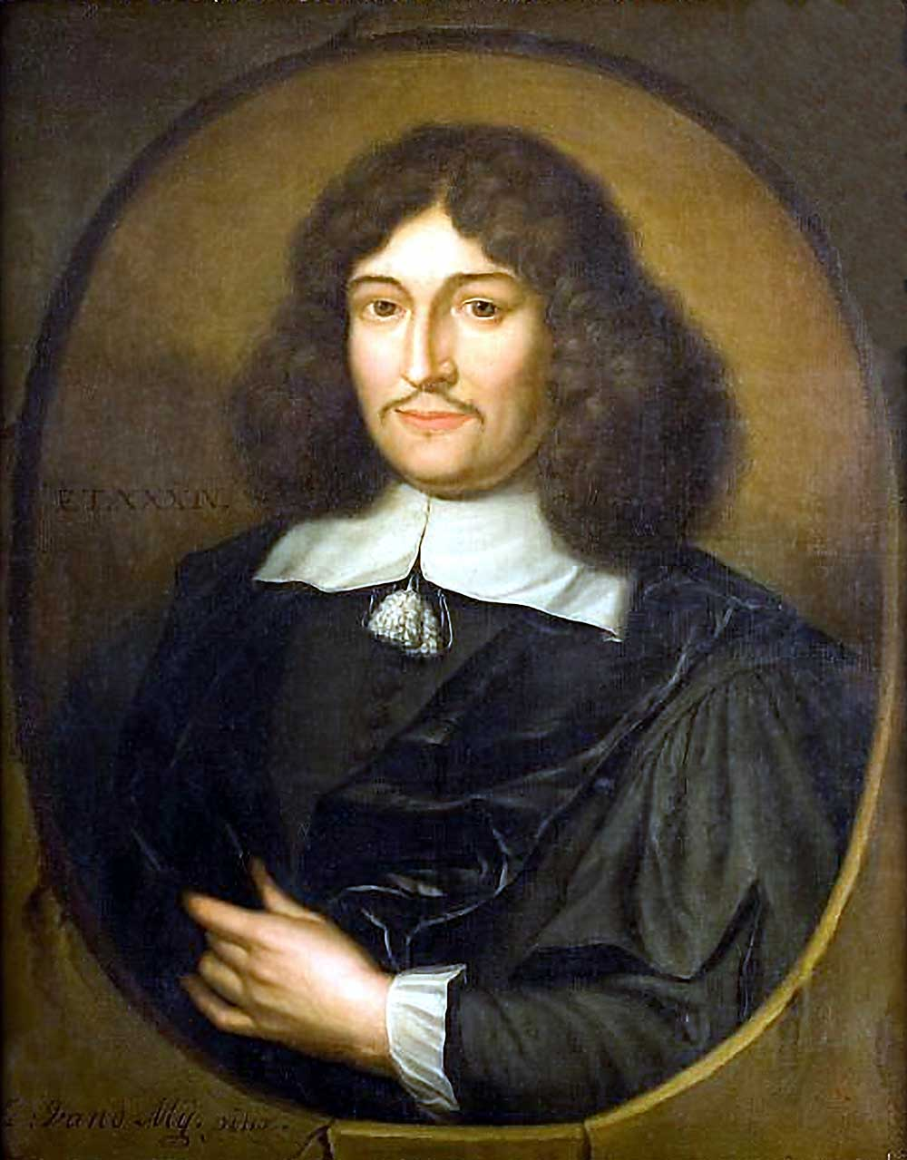 Adriaan Beeckerts van Thienen (1623-1669) Dutch jurist